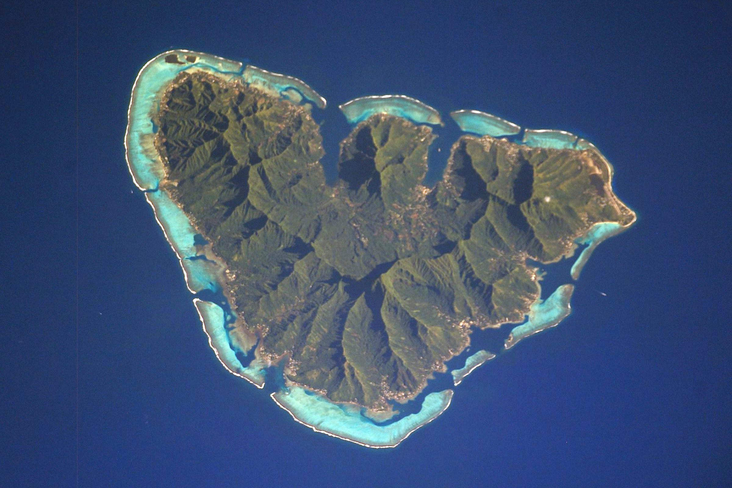 NASA astronaut image of Moorea (French Polynesia) in the Pacific Ocean